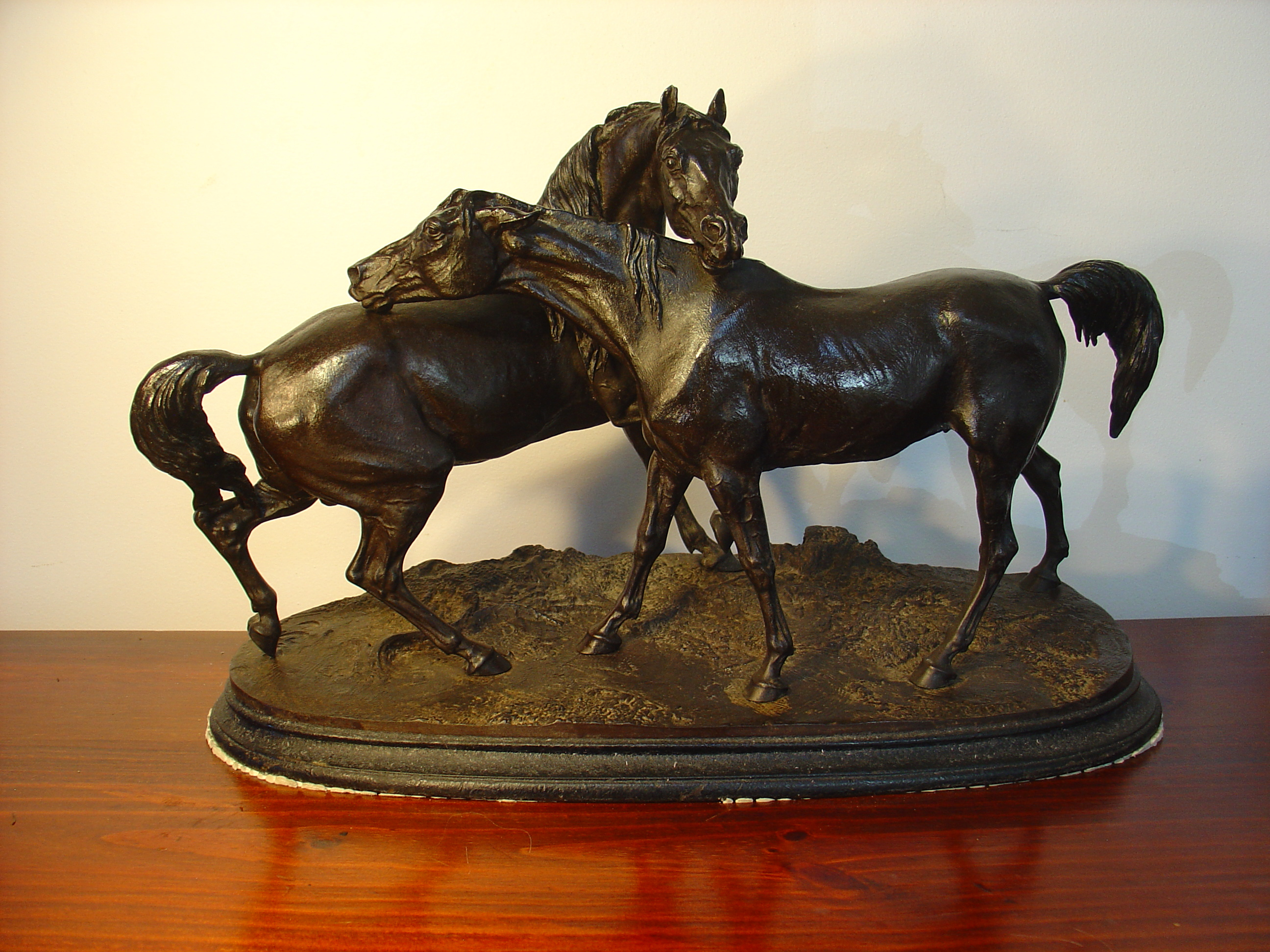 Created and cast in the Paris foundry of P.-J. Mêne in 1851